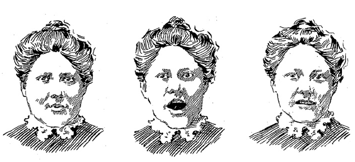 Lillie Eginton Warren patent, #US726484A, "Means for Teaching the Reading of the Facial Expressions which Occur in Speaking", series of pictures